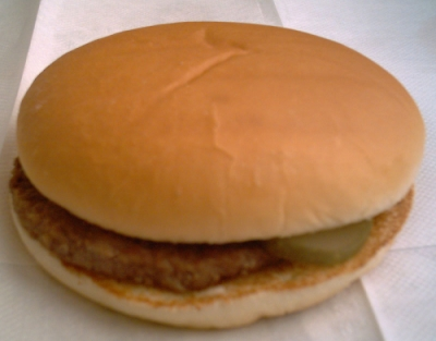 McDonald's_Hamburger in Japan photography day, 2006/10/16 photography person kici